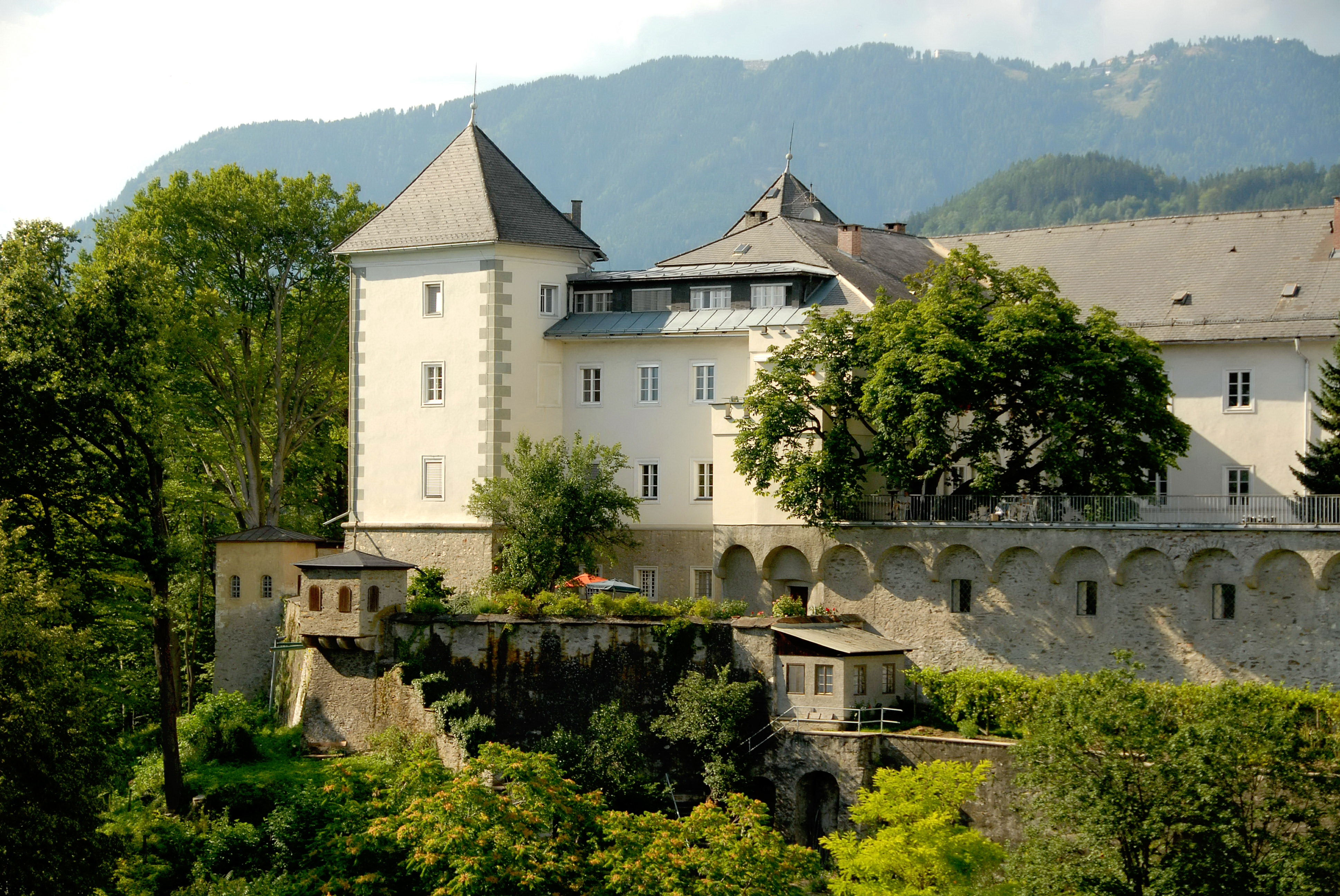 Southwest corner of the monastery Wernberg in the community Wernberg, district Villach-Land, Carinthia, Austria